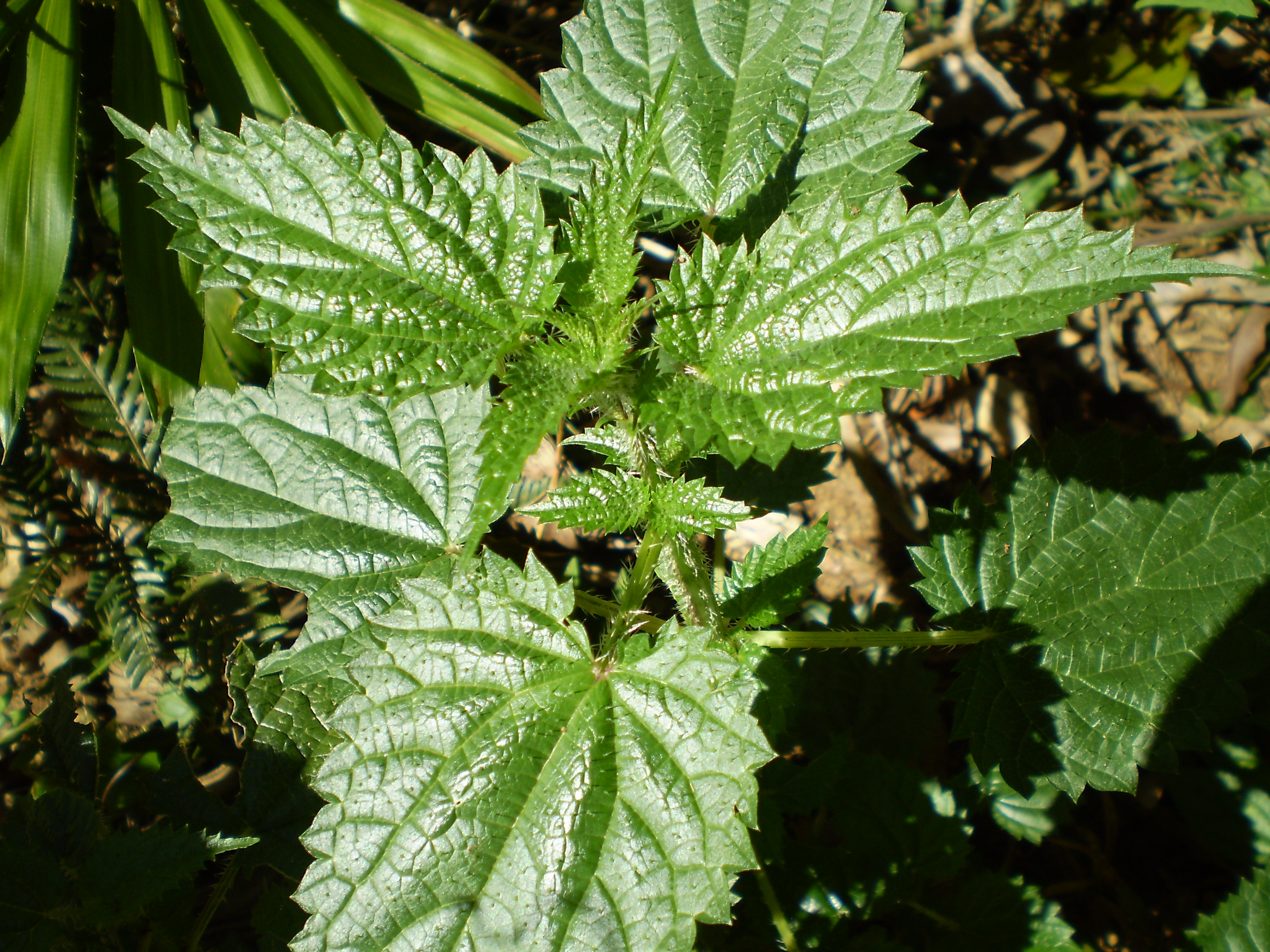 Leaf shoot of Urtica incisa, scrub nettle, Uki, northern New South Wales, Australia.